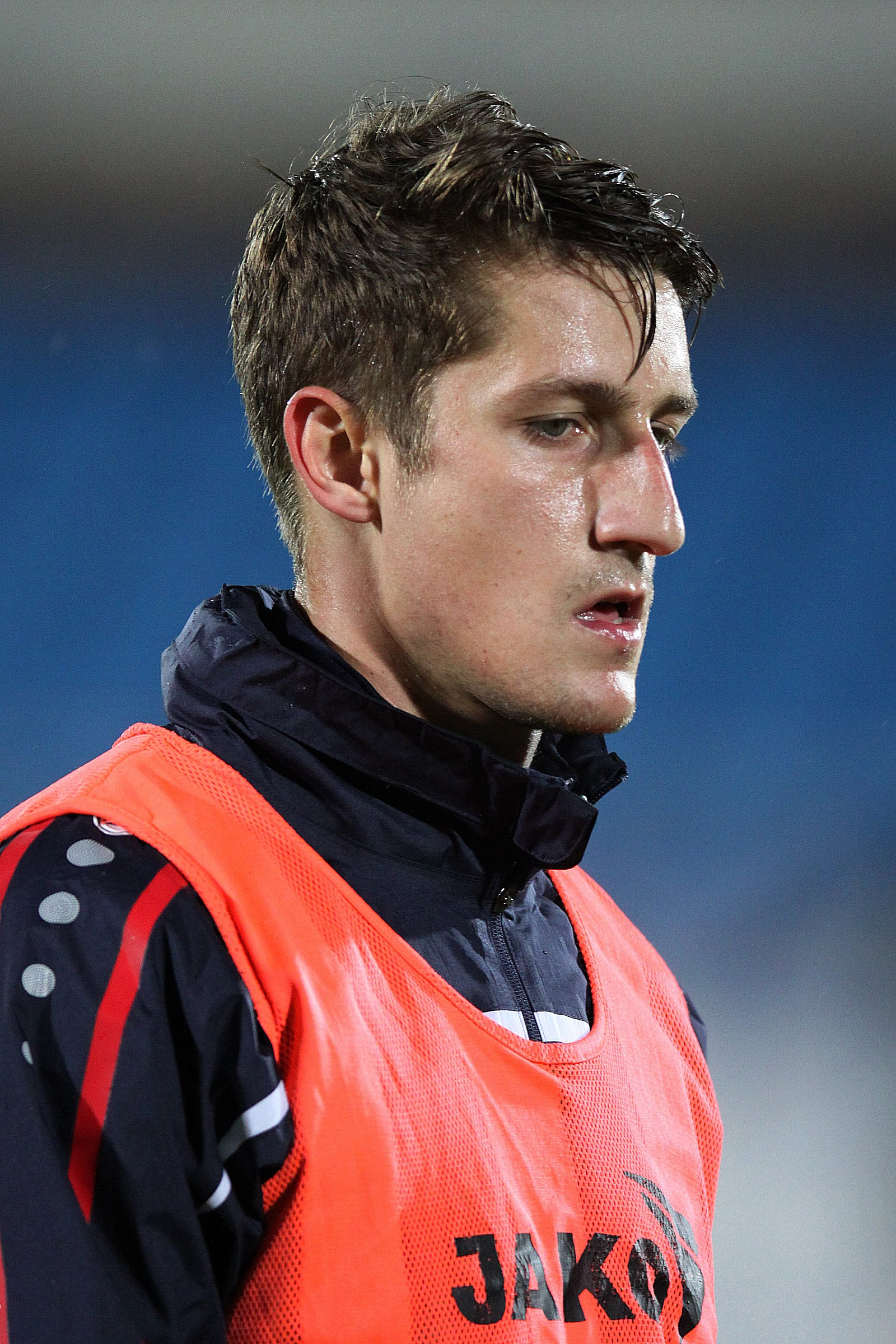 2014–15 Austrian Football Bundesliga: SC Wiener Neustadt vs. SC Rheindorf Altach (2:0 / 0:0) at 2014-12-06 in the Stadion Wiener Neustadt. – The photo shows en: (SC Wiener Neustadt/SC Rheindorf Altach). The making of this work was supported by Wikimedia Austria. For other files made with the support of Wikimedia Austria, please see the category Supported by Wikimedia Österreich.